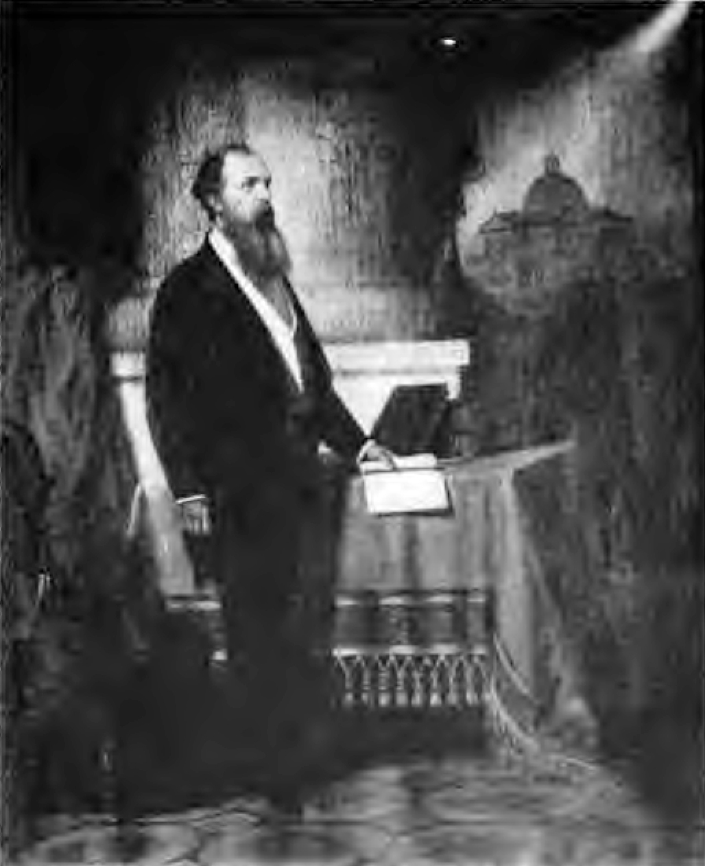 Historical photograph of portrait of James S. Rollins. In background is the original Academic Hall of the University of Missouri. On the paper that Rollins is holding is written "Education and Freedom for All." The portrait was done as a mural inside Academic Hall, and was destroyed when the building burned in 1892.